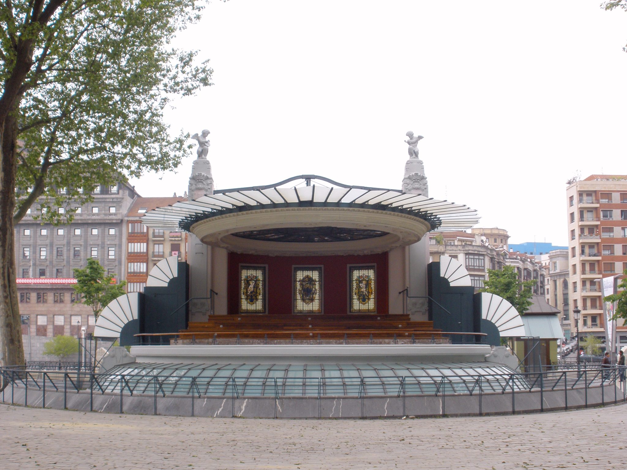 Kiosko del Arenal, en Bilbao (España)